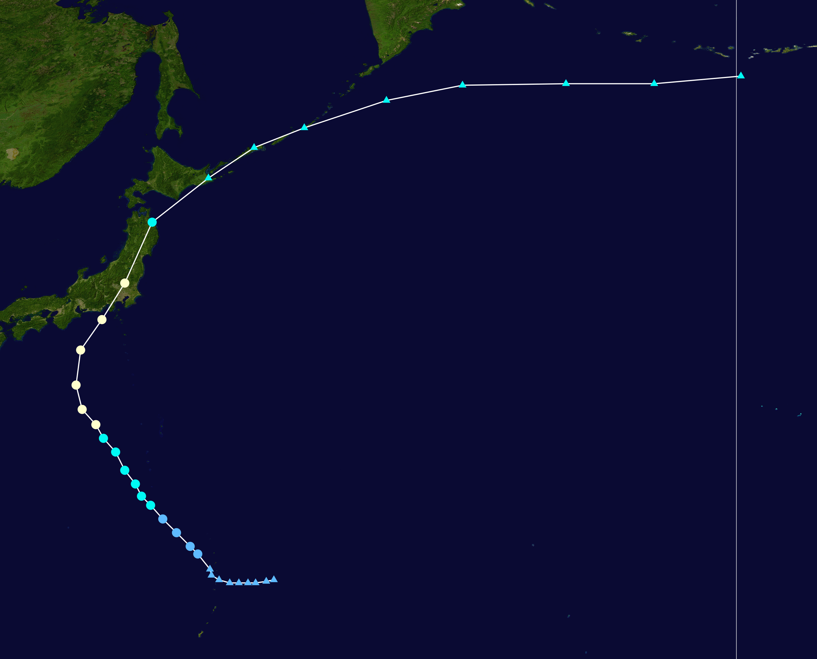 Track map of Severe Tropical Storm Stella of the 1998 Pacific typhoon season. The points show the location of the storm at 6-hour intervals. The colour represents the storm's maximum sustained wind speeds as classified in the Saffir–Simpson scale (see below), and the shape of the data points represent the nature of the storm, according to the legend below. Saffir–Simpson scale Tropical depression≤38 mph≤62 km/h Category 3111–129 mph178–208 km/h Tropical storm39–73 mph63–118 km/h Category 4130–156 mph209–251 km/h Category 174–95 mph119–153 km/h Category 5≥157 mph≥252 km/h Category 296–110 mph154–177 km/h Unknown Storm type Tropical cyclone Subtropical cyclone Extratropical cyclone / Remnant low / Tropical disturbance / Monsoon depression